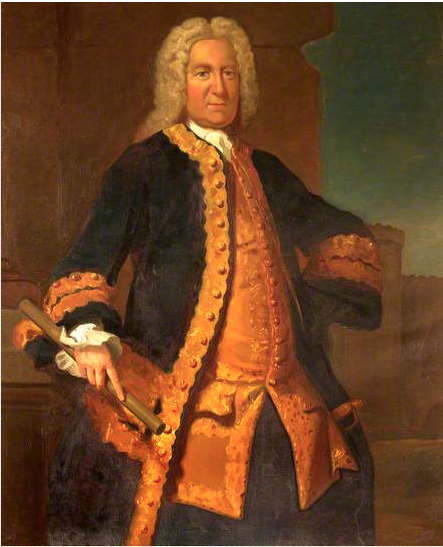 Richard Philipps, Governor of Nova Scotia by Caroline Hall c. 1911